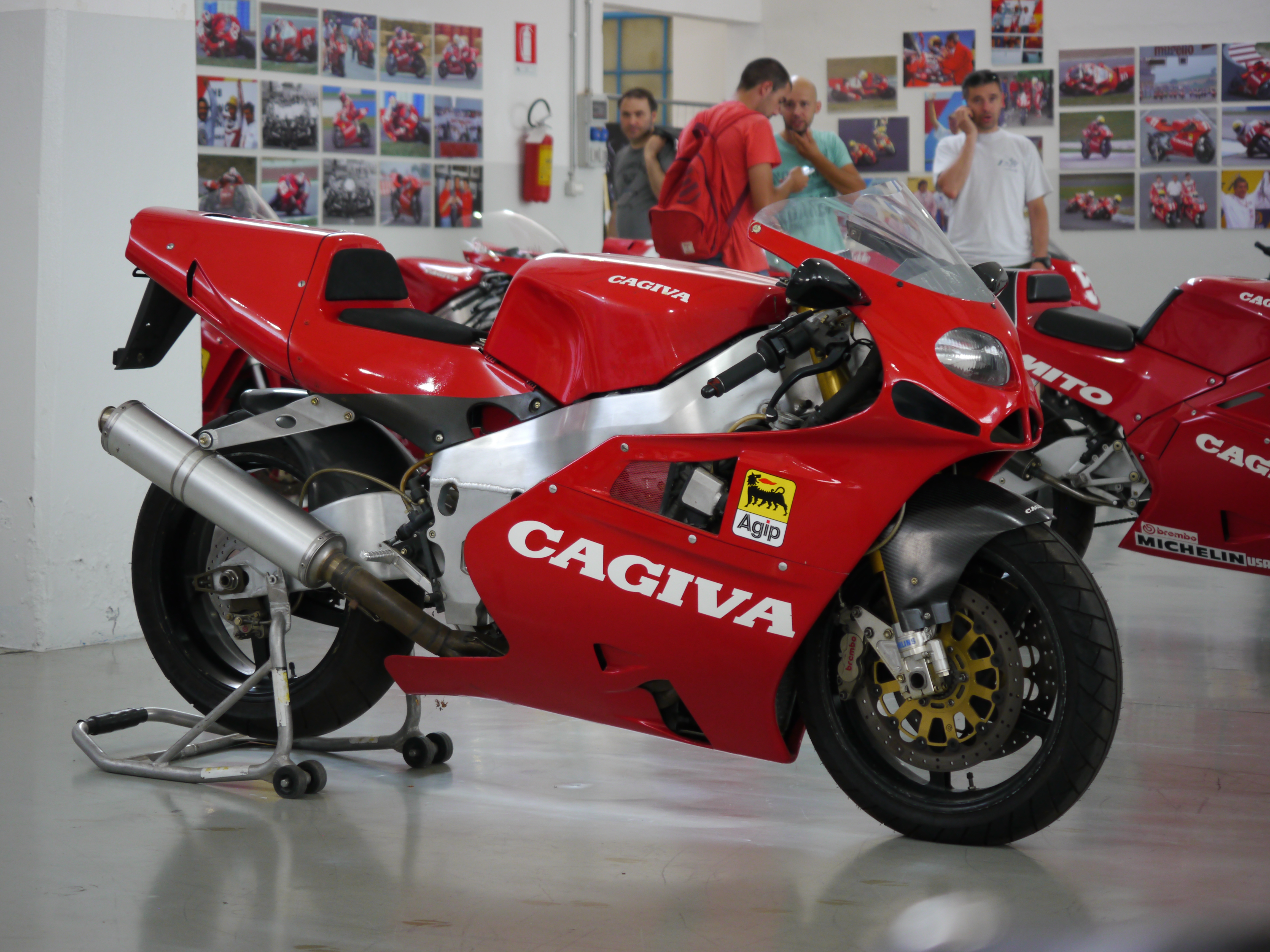 1995 Cagiva F4, a prototype that prefigured the future 1998 MV Agusta F4, exhibited at "Gli Amici di Claudio 2015" event in Schiranna, Varese (Italy), Summer 2015.